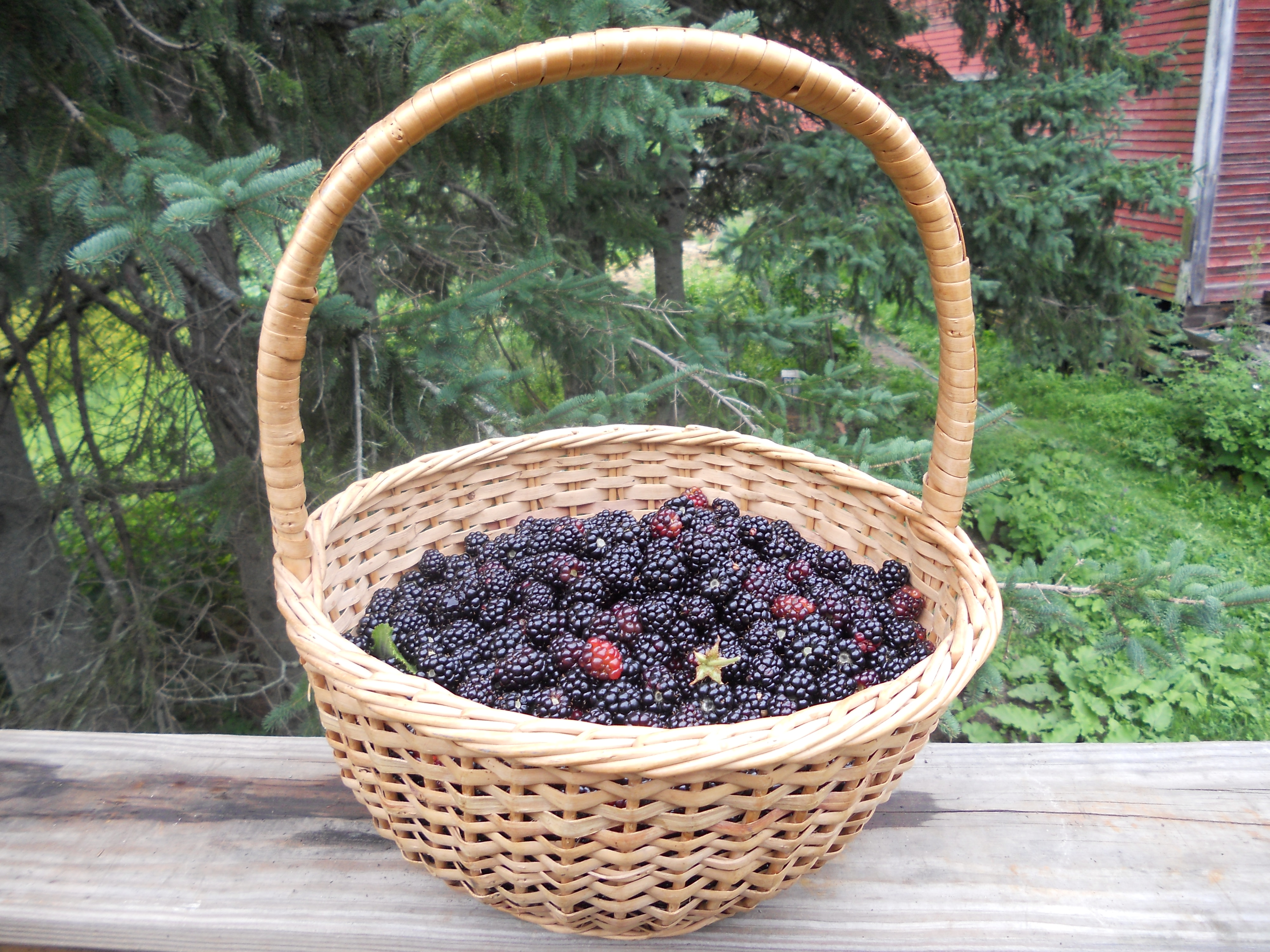 Basket of wild blackberries